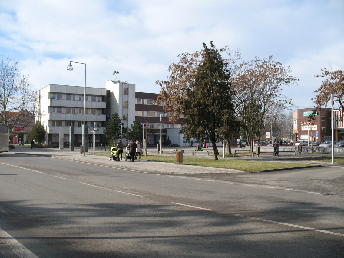 Photo of town hall in Šaľa